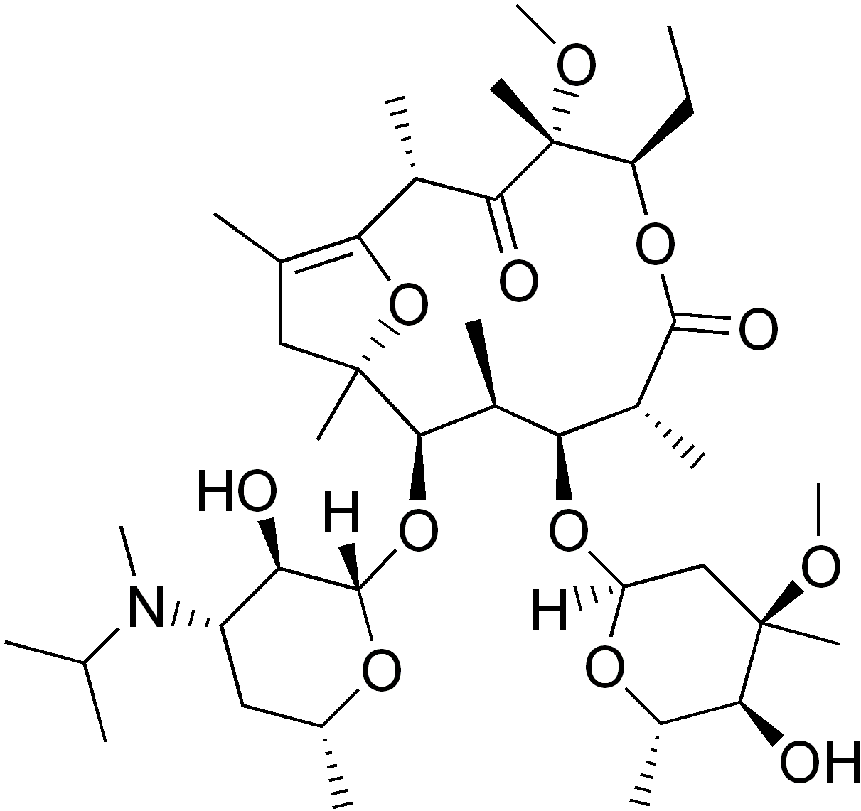 chemical structure of mitemcinal (GM-611)